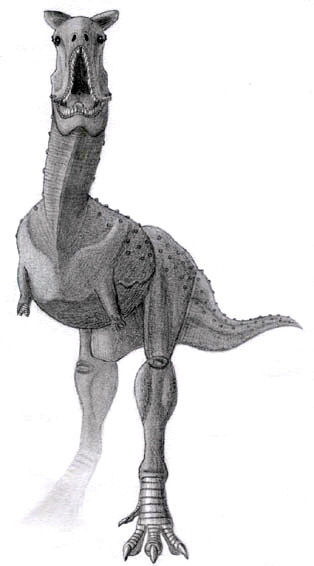 Sketch of Carnotaurus sastrei, a "horned" theropod Dinosaur from the late Upper Cretaceous of South America.